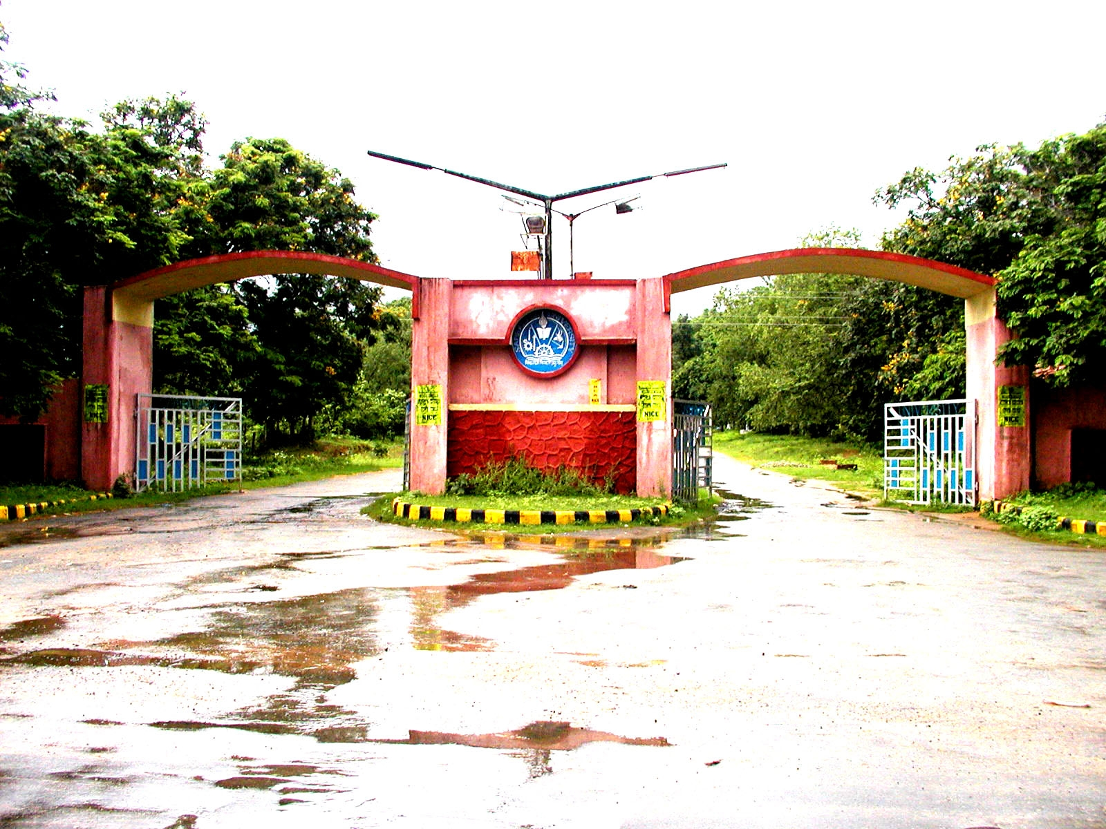 Main gate of SU, Orissa, India, photograph has been taken by me.